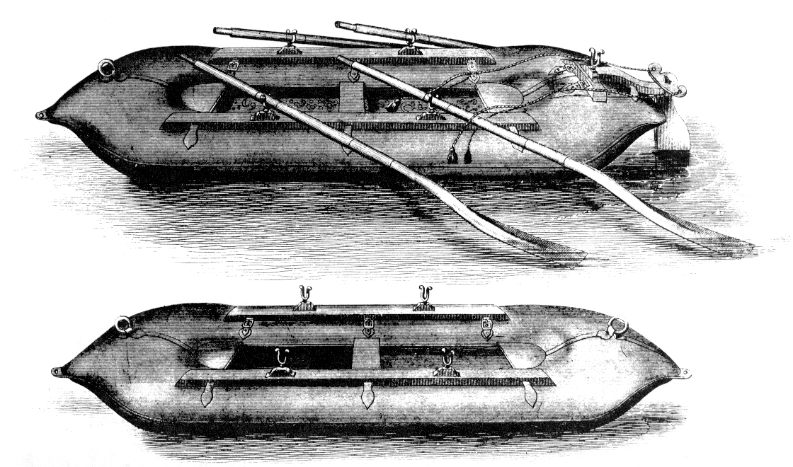 scanned image of inflatable rubber boat, circa 1855